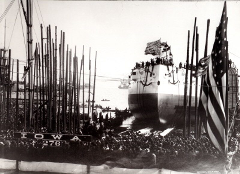 Launch of the great battleship IOWA